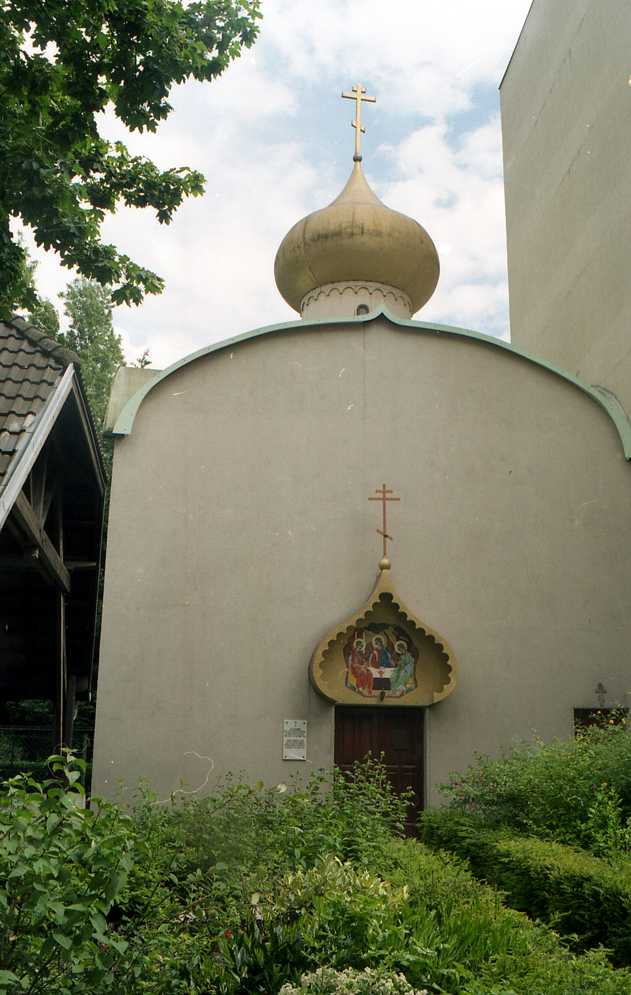 Russian orthodox church in Vanves, Hauts-de-Seine, France